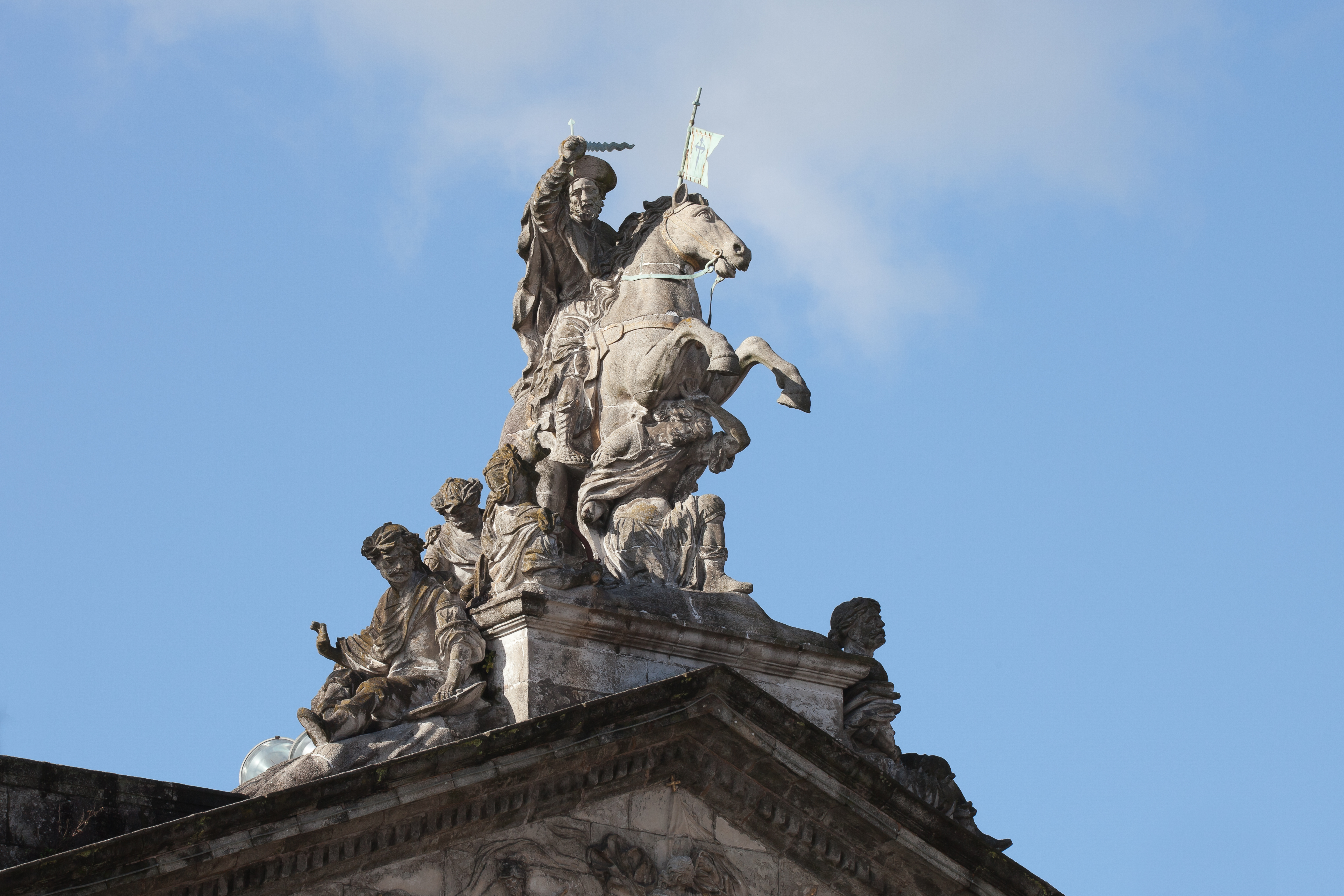 Santiago apostle. Palace of Raxoi, Santiago de Compostela, Galicia (Spain)